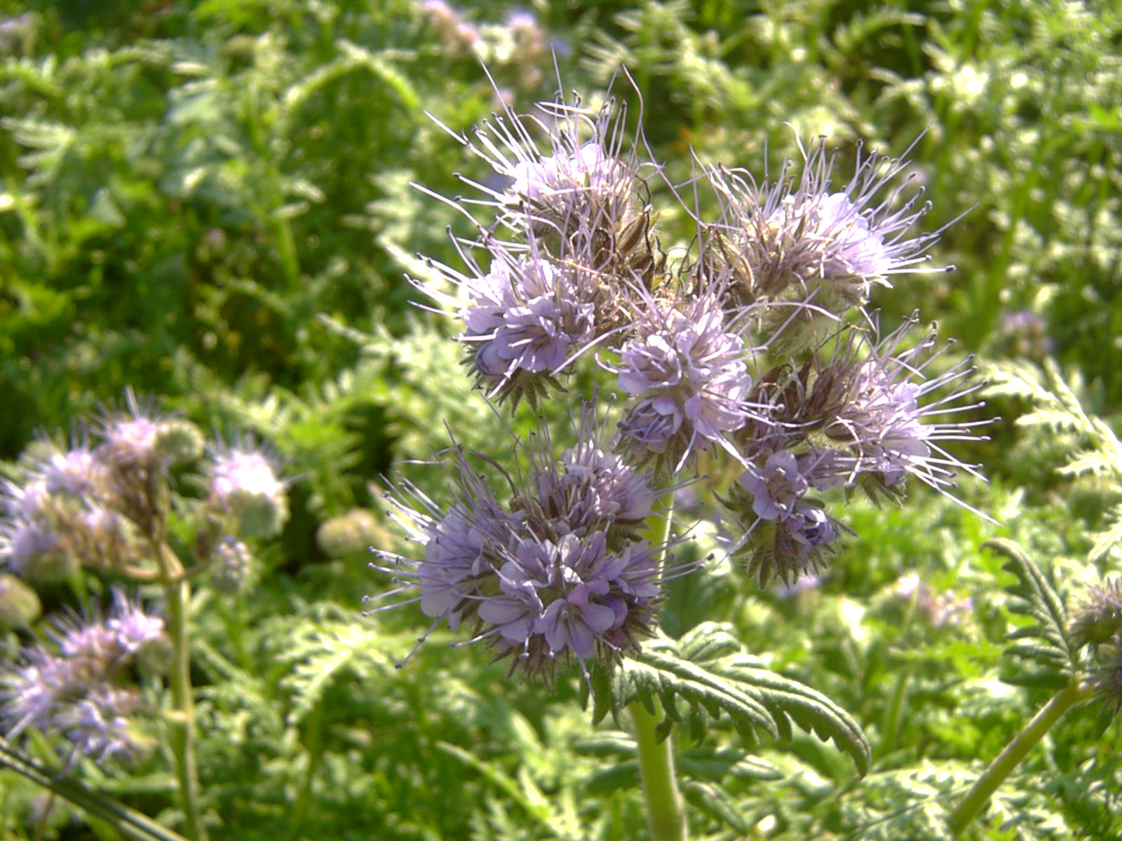 Cultural Phacelia in the field (Dubendorf, Switzerland). Done by Audrius Meskauskas (uploader).